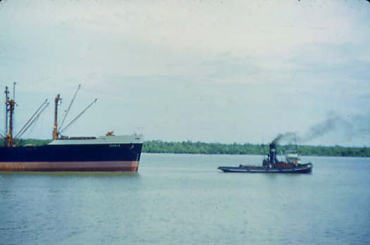 A tugboat pulls a freighter through the Madura Strait. Today the Suramadu Bridge connects Madura Island with Java.